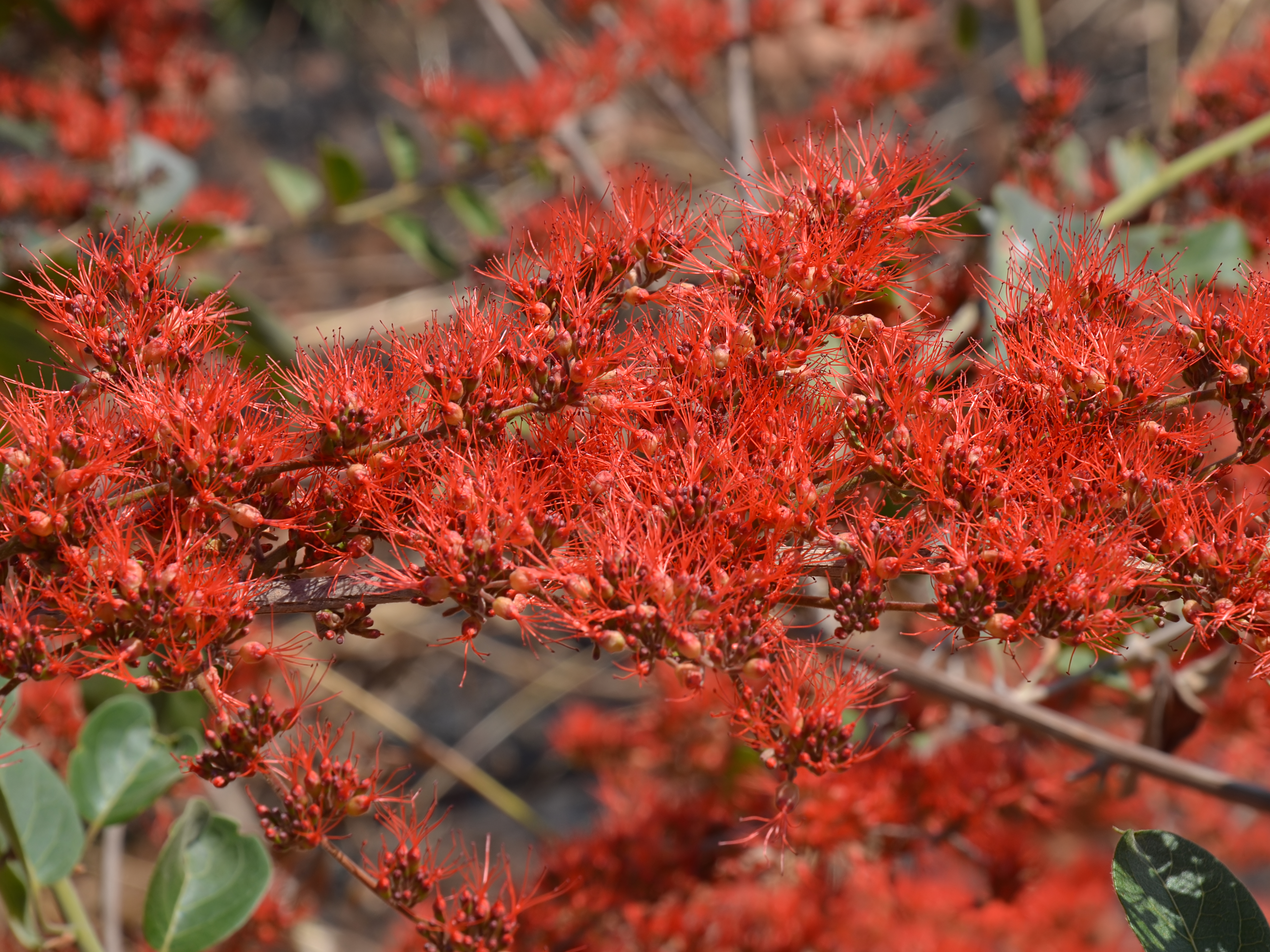 Riverine Flame-creeper near Monkey Bay, Malawi.